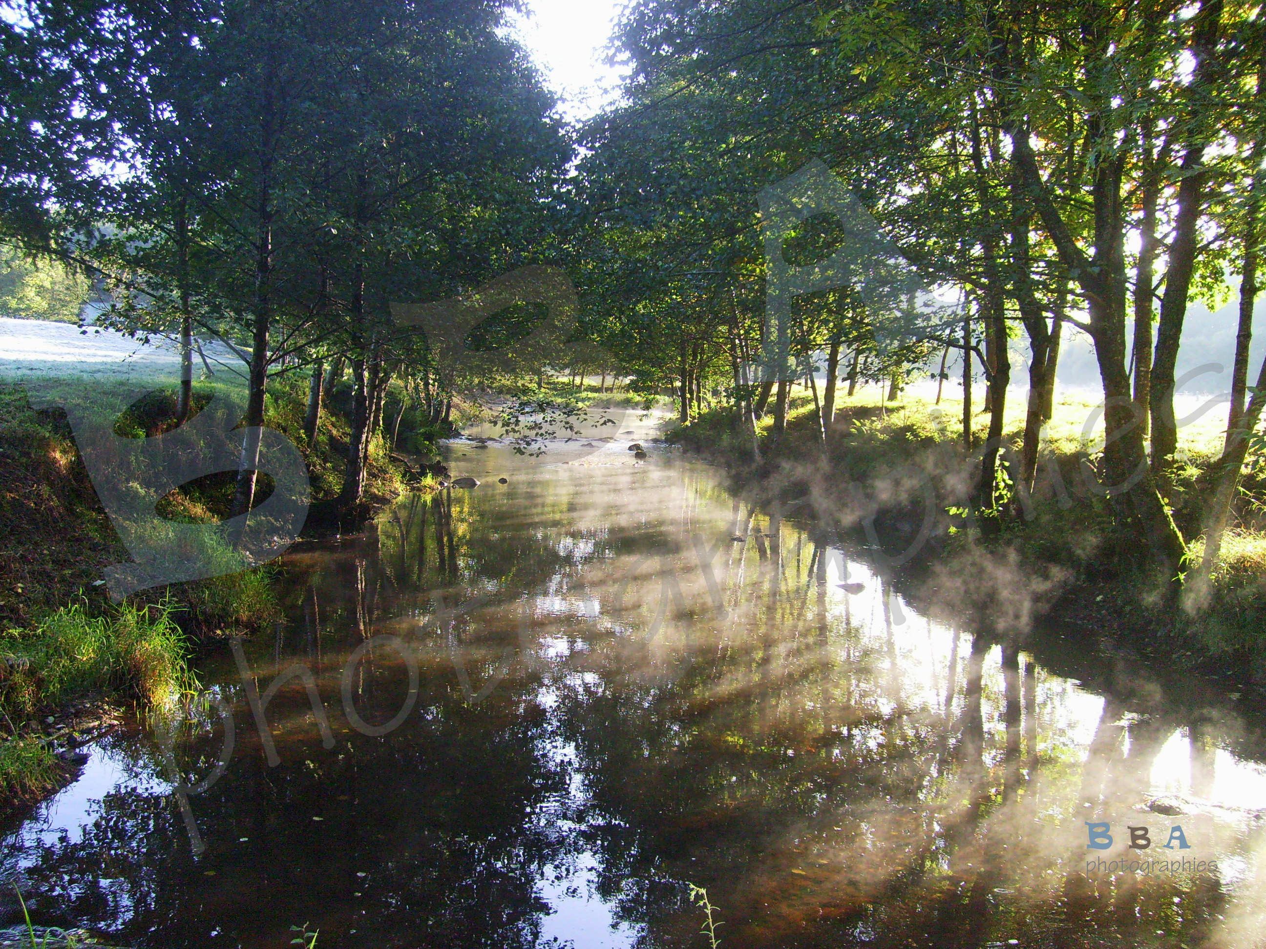 L'Issoire à Brillac